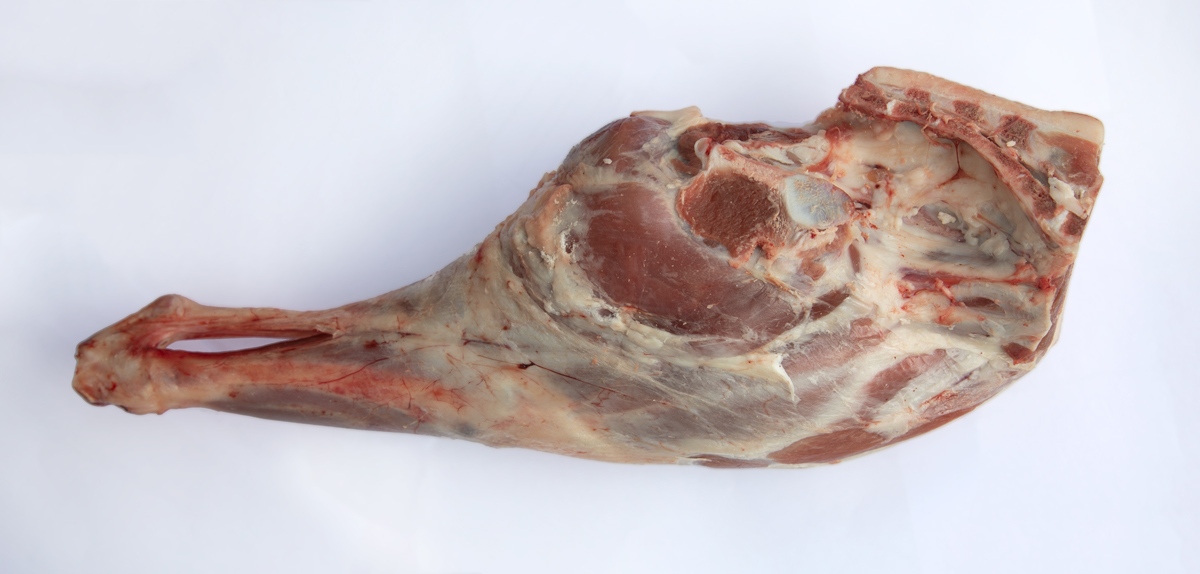 cut of lamb, lamb joint